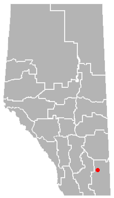 Location of Suffield, Census Division No. 1, Albera